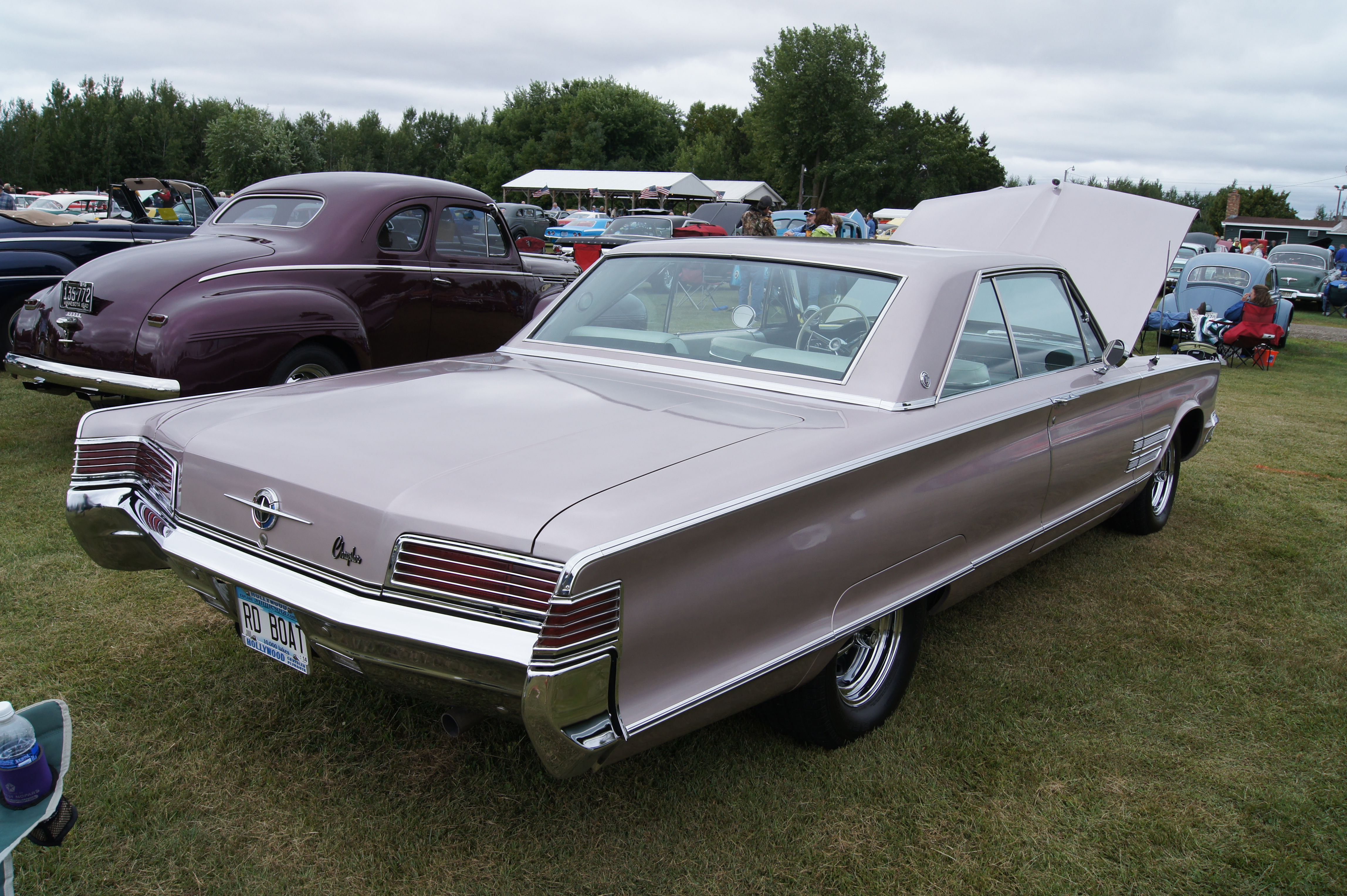 North Star Chapter Studebaker Drivers Club 13th Annual Labor Day Car Show September 2, 2013 Blacksmith Lounge Hugo, MN More Car Pictures